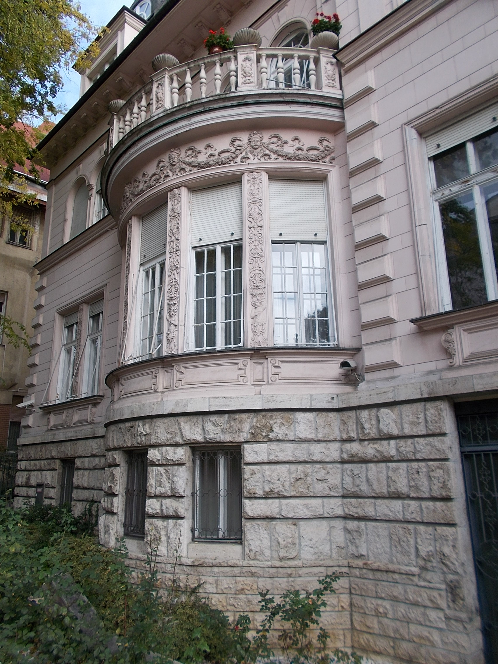 Polish Embassy in Hungary (Ambasada Rzeczypospolitej Polskiej w Budapeszcie). Városligeti fasor and Bajza Street cnr, Budapest District VI., Hungary